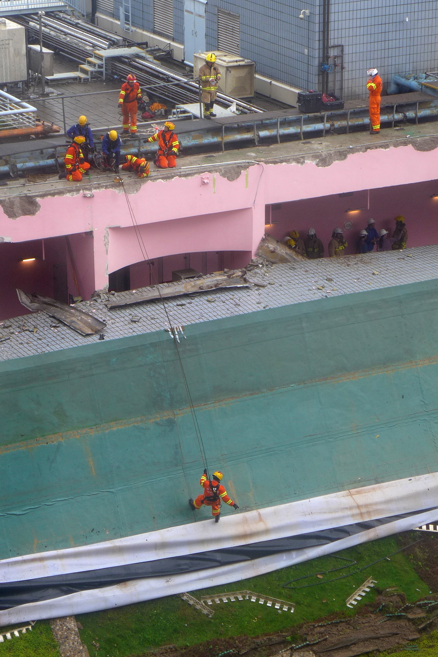 City University of Hong Kong Hu Fa Kuang Sports Centre roof collapses site